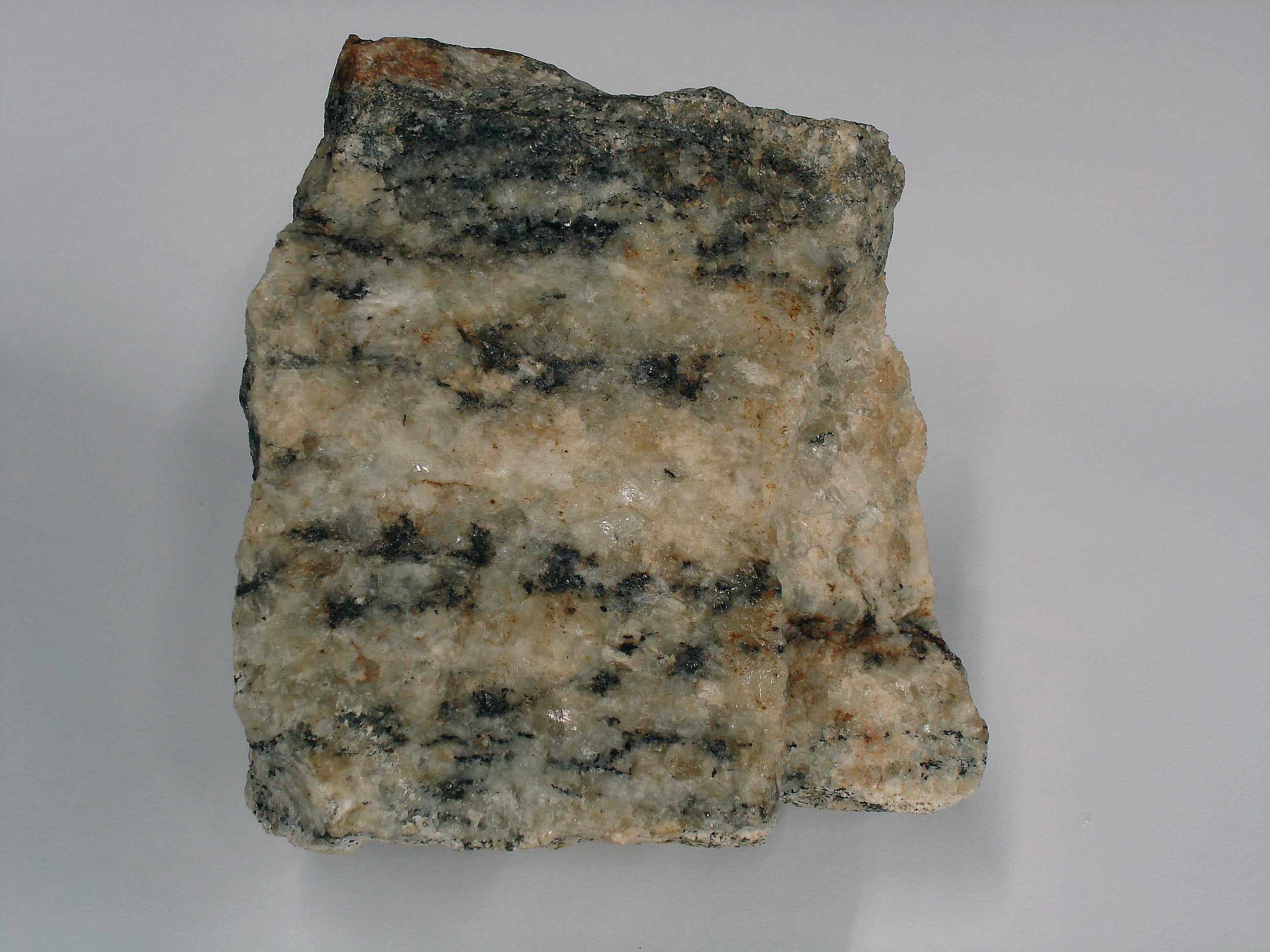 Litchfieldite from the precambrian Canaã alkaline massif Rio de Janeiro, Brazil Author:Eurico Zimbres Free for all use